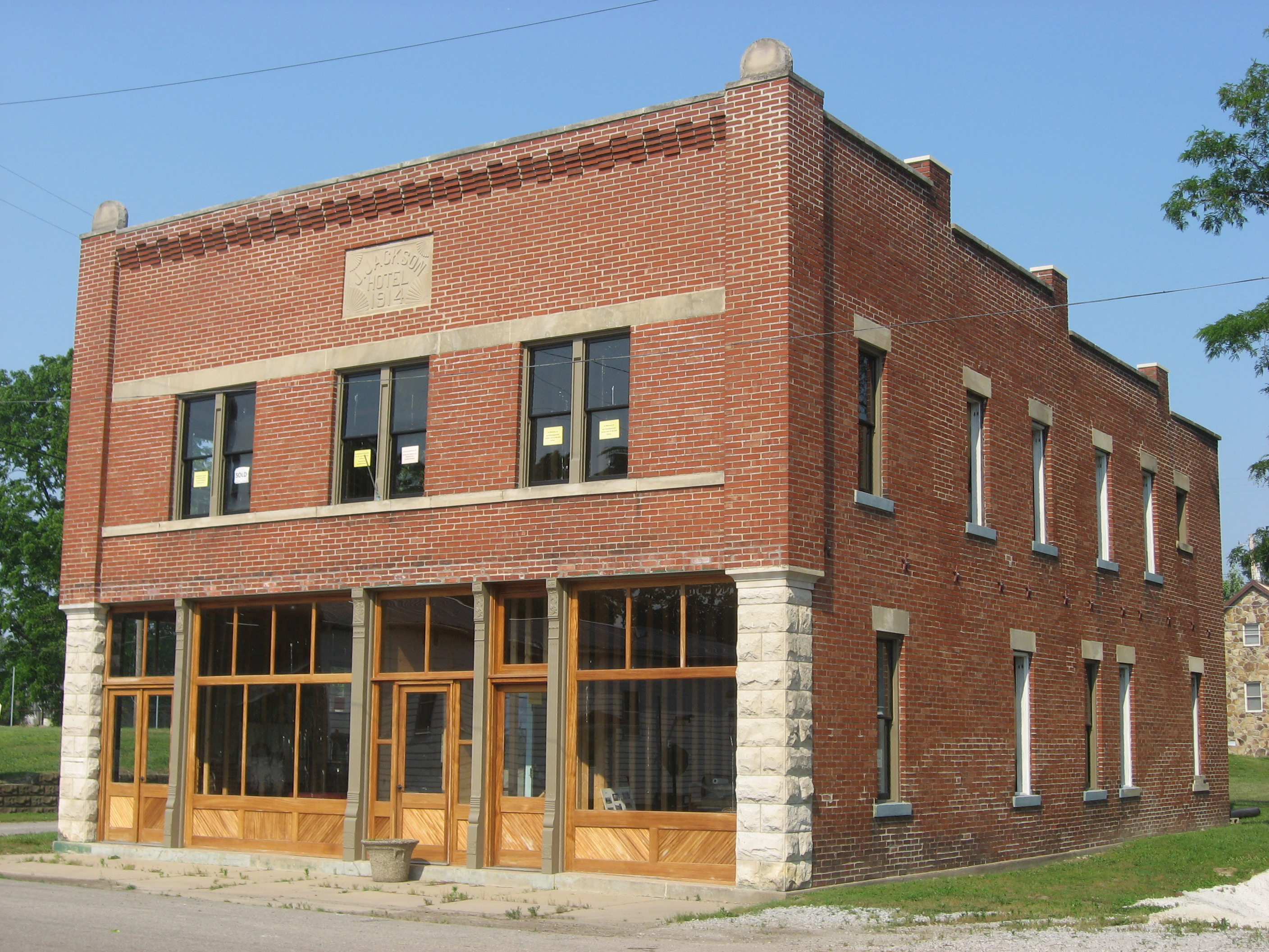 Southern side and front of the Joseph Jackson Hotel, located at 2420 S. Main Street in Vallonia, Indiana, United States. Built in 1914, it is listed on the National Register of Historic Places.